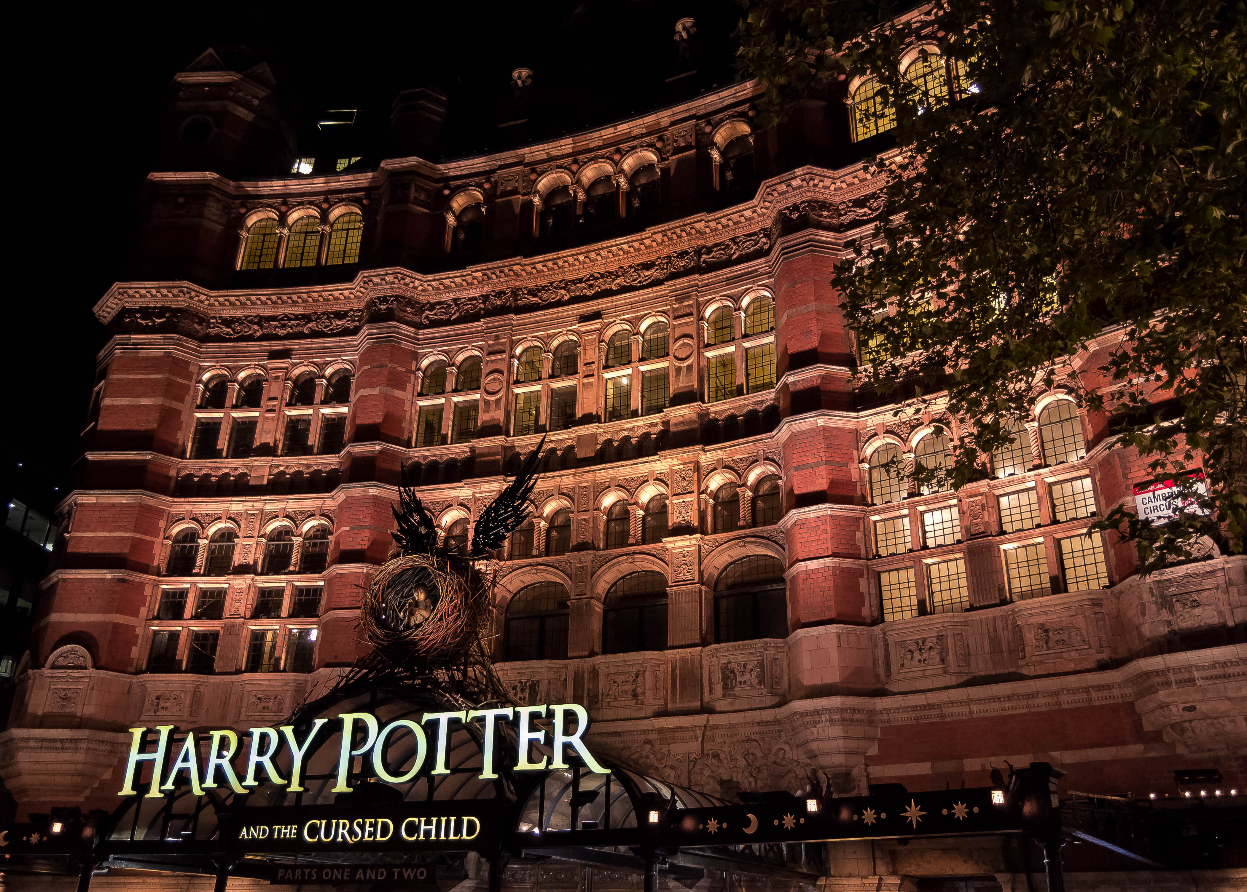 Palace Theatre Wikidata has entry Q4592132 with data related to this item.